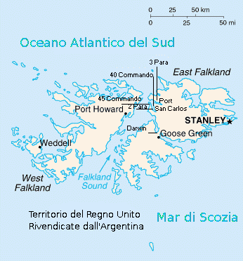 Map of Falkland Islands with important places and some italian translations